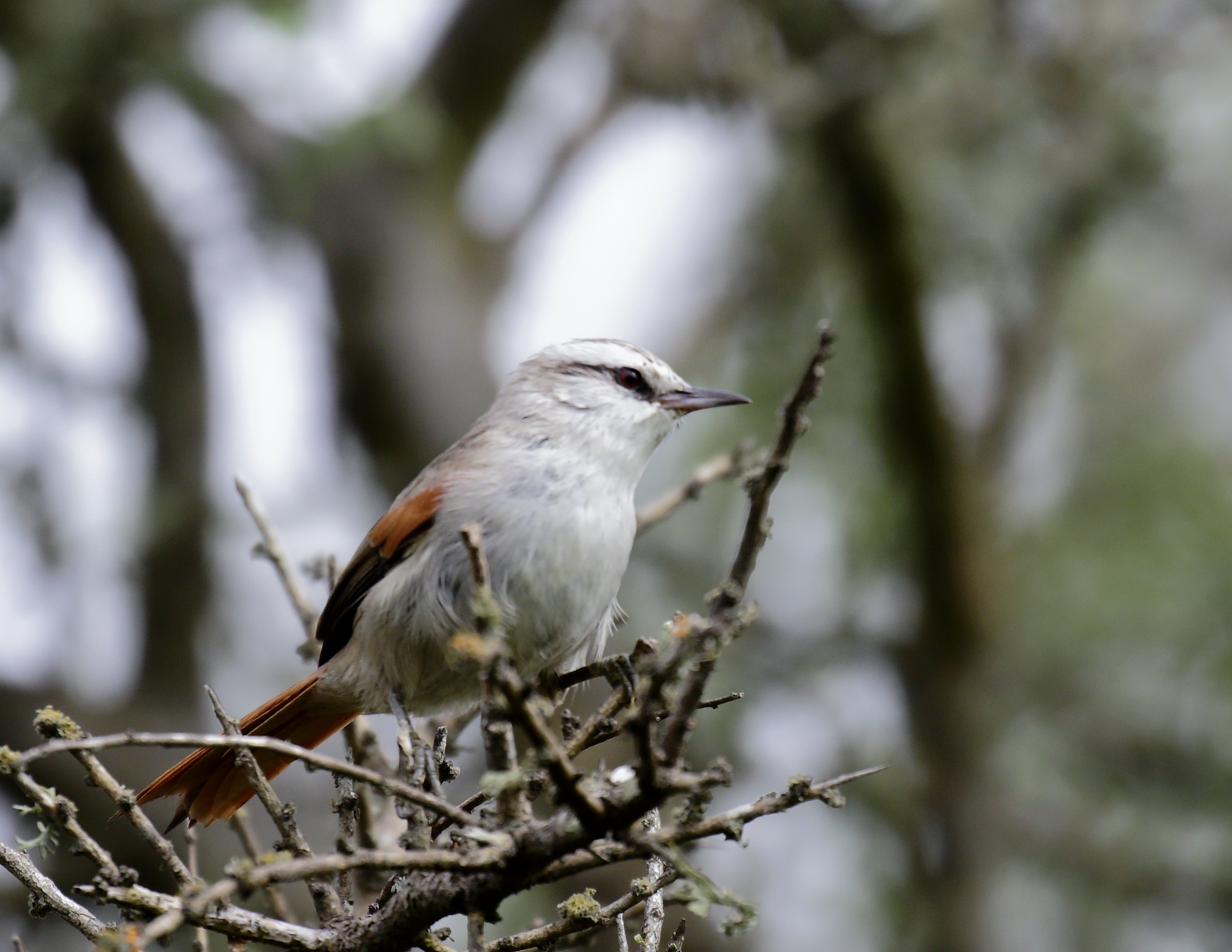 Stripe-crowned Spinetail; Capivara, Santa Fe, Argentina